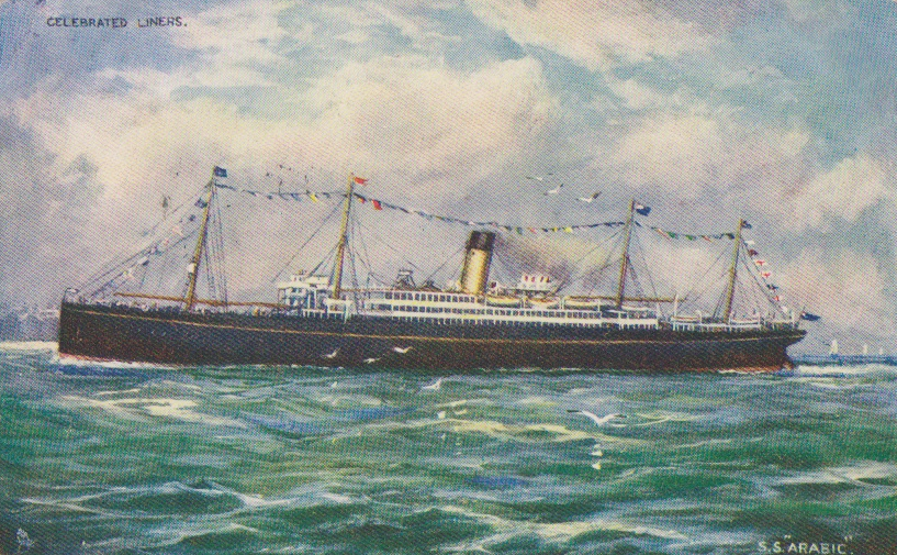 Raphael Tuck & Sons "Oilette" postcard no. 6228, White Star Line, entitled "Celebrated Liners S. S. "Arabic" (used and postmarked May 1905).